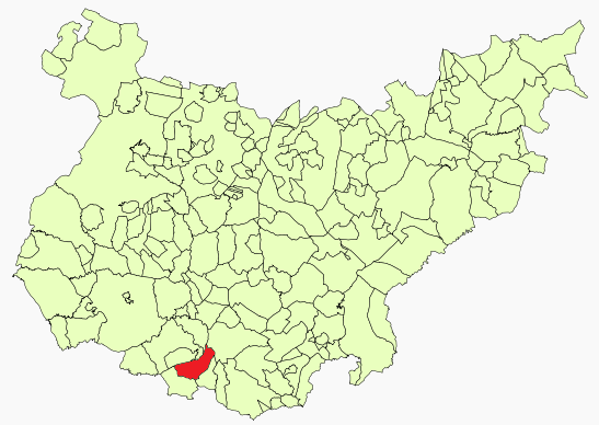 Segura del León